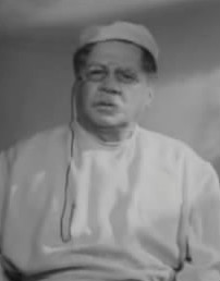 Aleksei Dikiy as Vasily Vasilyevich in Tale of a True Man (1948)